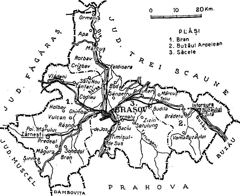 Map of Brașov interwar county, Kingdom of Romania (1938).